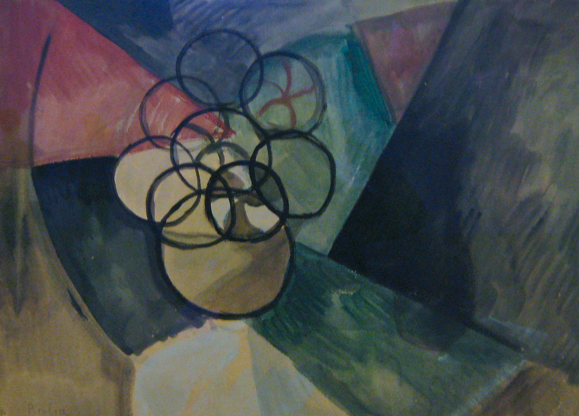 Francis Picabia, c.1909, Caoutchouc, watercolor, gouache and India ink on cardboard, 45.7 x 61.5 cm, Centre Pompidou, Musée national d'art moderne, Paris